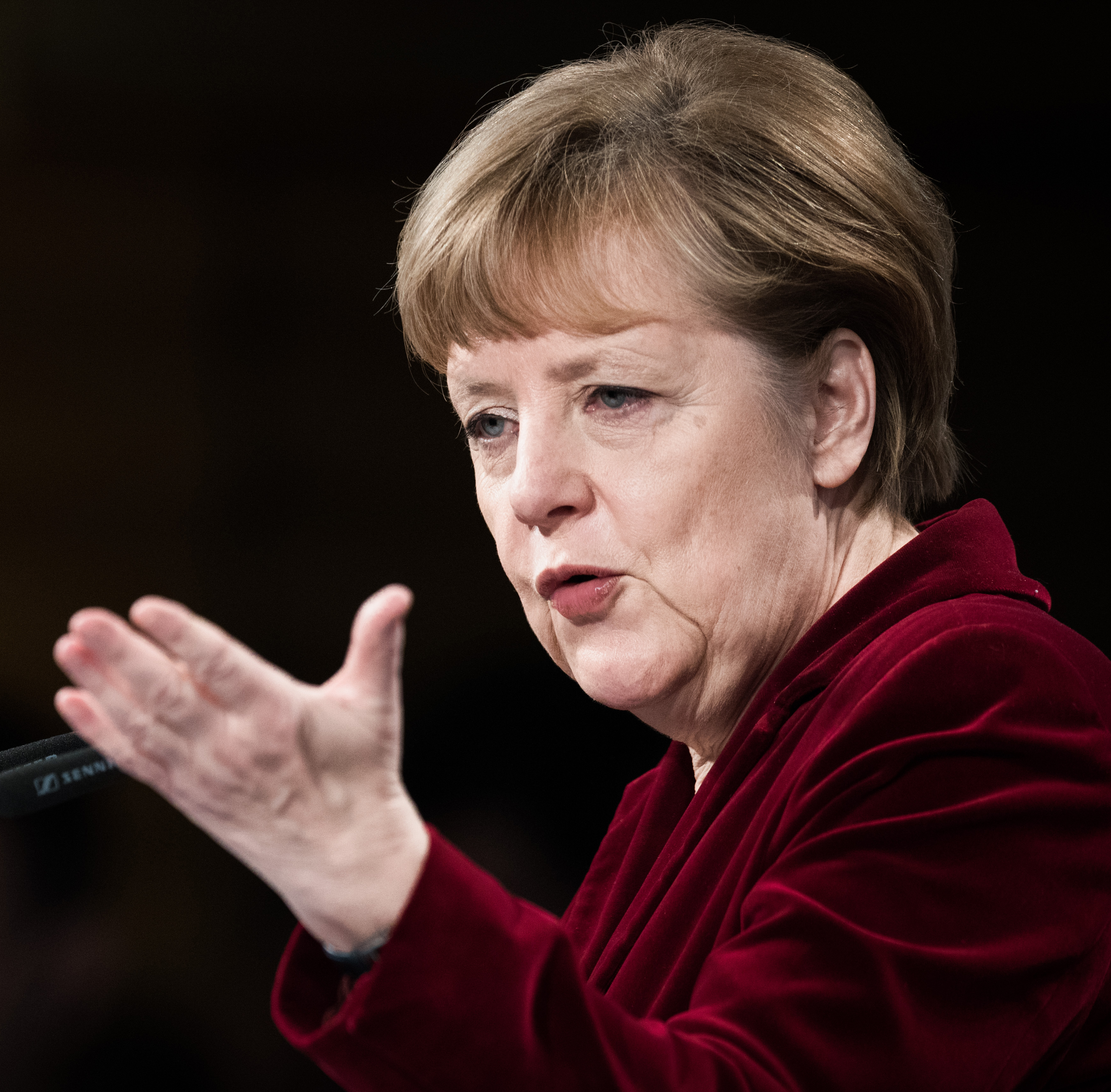 51sth Munich Security Conference 2015: Dr. Angela Merkel (Federal Chancellor, Federal Republic of Germany).